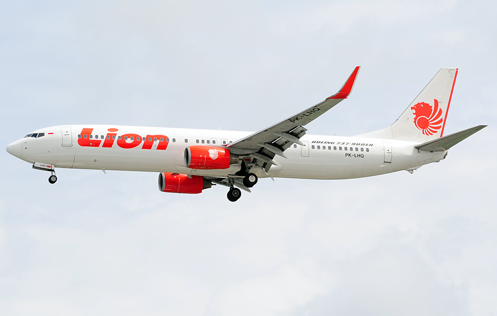 PK-LHQ B737-9PGER Lion Air landing at Singapore, Changi on December 8, 2012.